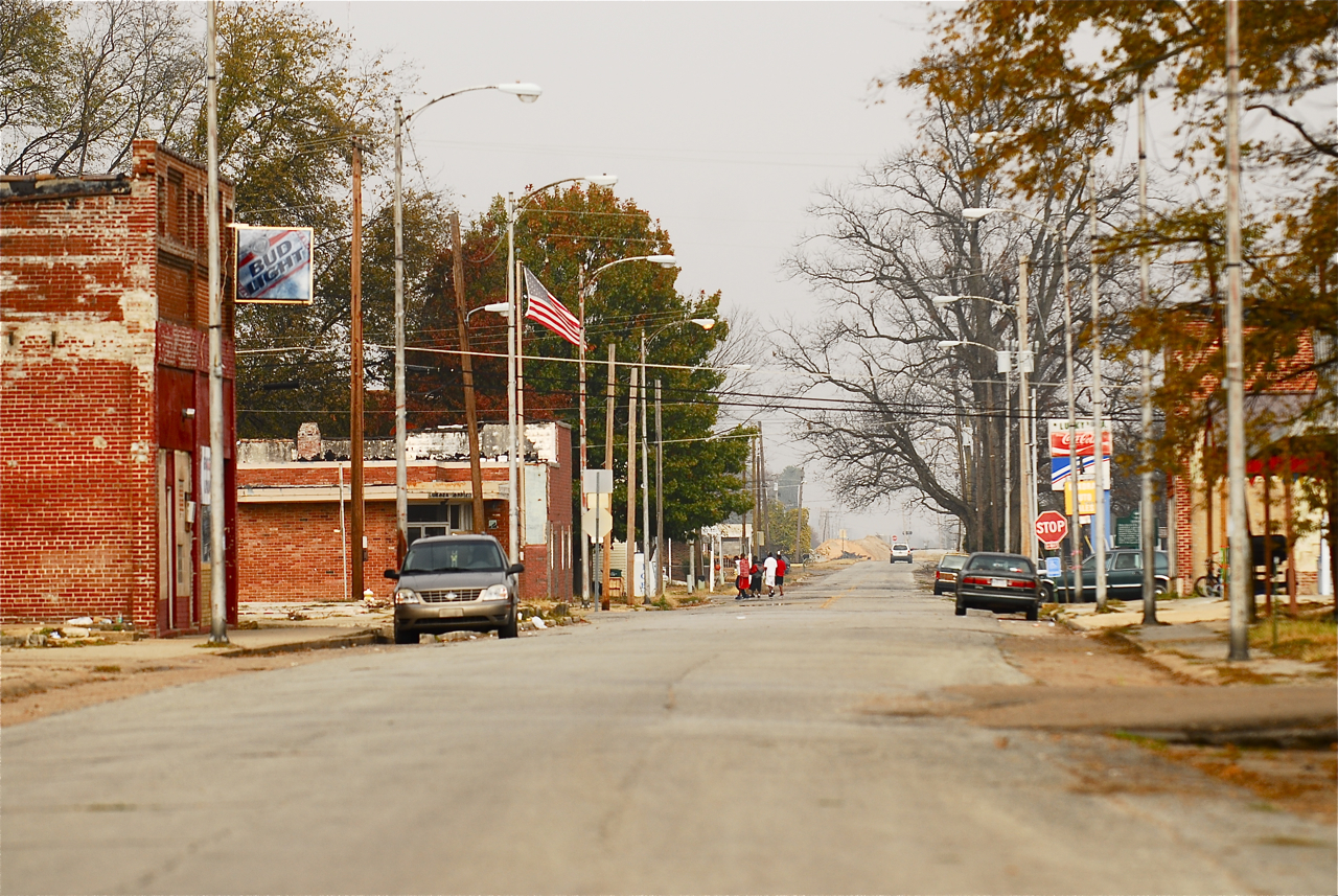 Almost entirely abandoned main street Luxora